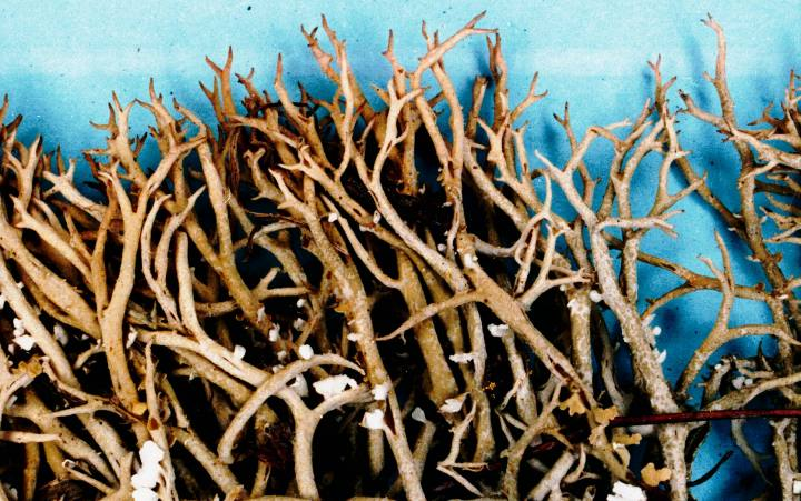 Cladonia furcata (Huds.) Schrad., 1794 (photograph of a herbarium specimen; note the podetial squamules) Growing along stream in deciduous woods behind old mine along E side of Route 36, one mile N of Midland, Allegany County, Maryland, USA; collected and identified by A. Norden and B. Ball (No. 206, 31 Dec 1972); specimen is now in the Lichen Herbarium of the New York Botanical Garden.